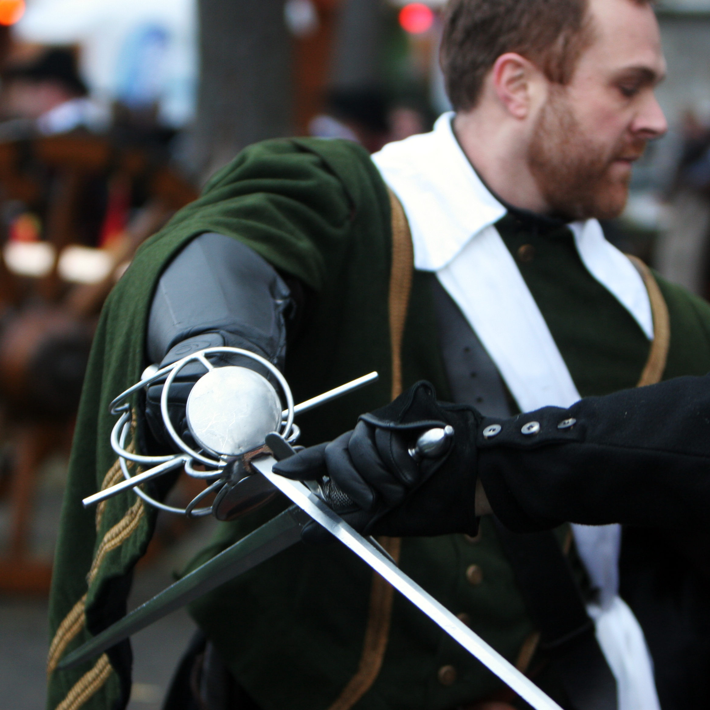 Geneva Escalade of 2009 - Demonstration of historical fencing with rapiers and mains gauches